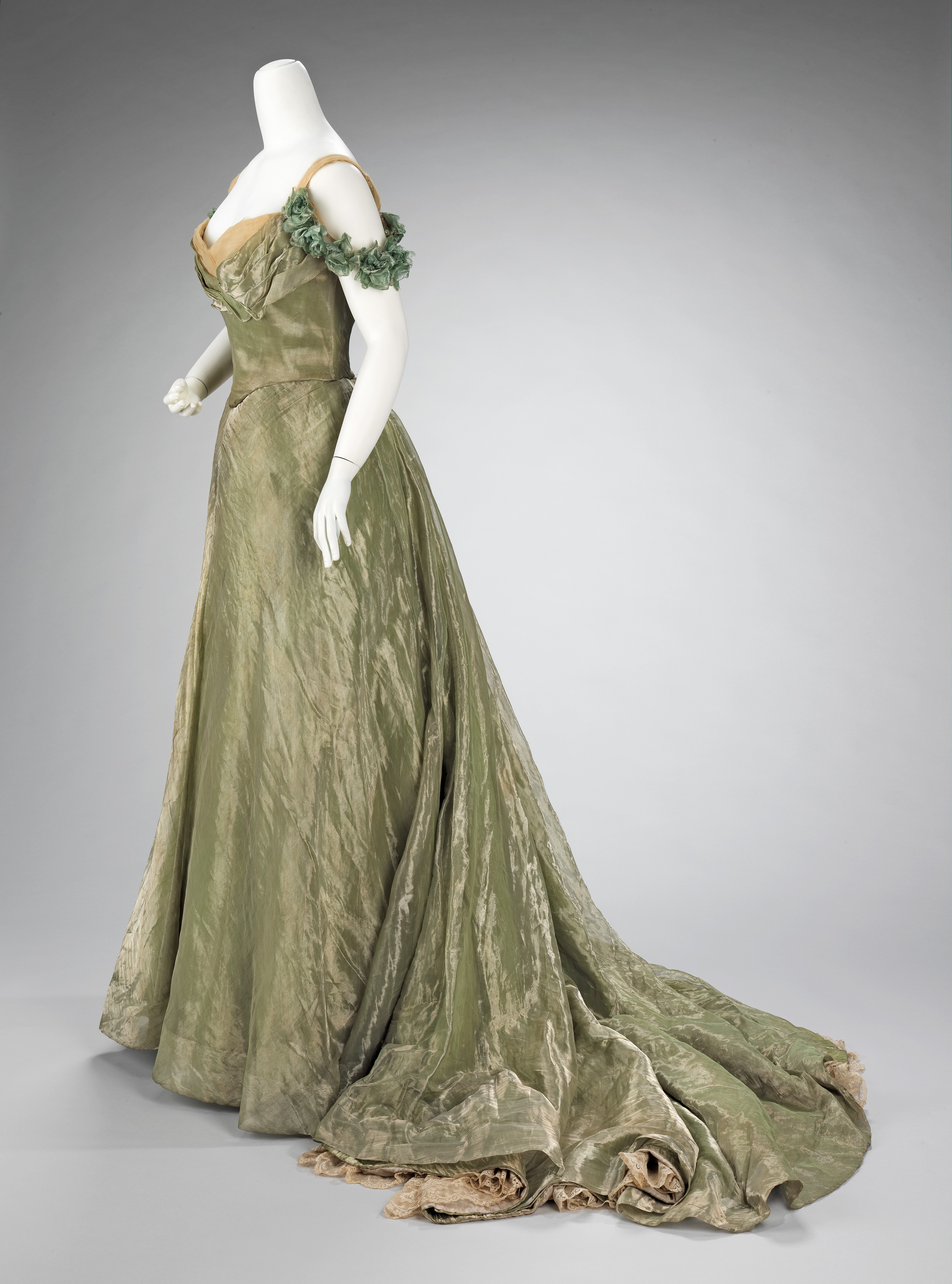 Ball gown created by Jacques Doucet, 1898-1900. Side view